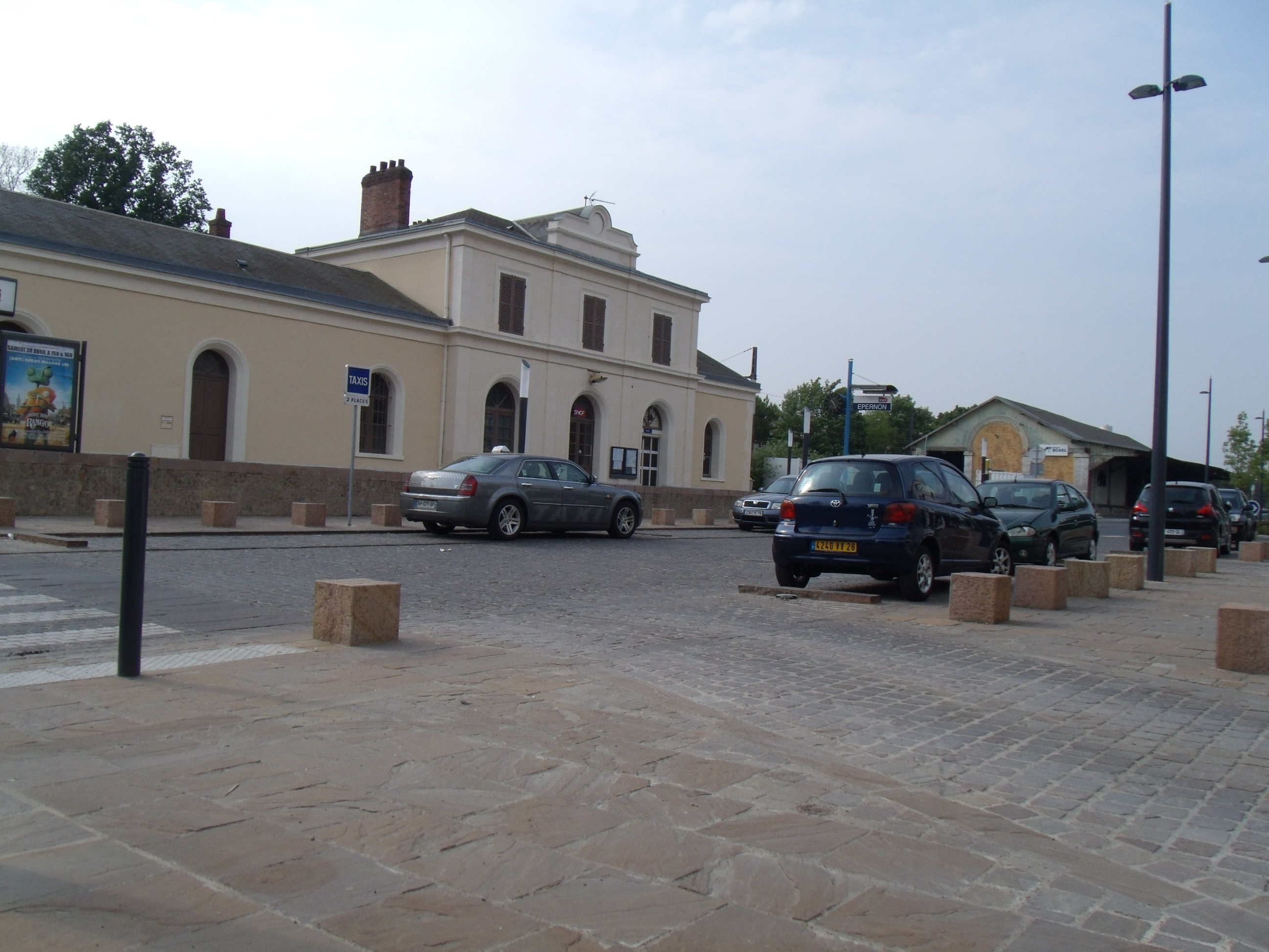 Epernon station